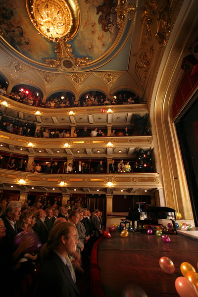 Matematička gimnazija - Mathematical Gymnasium Belgrade - MGB - 40th Anniversary